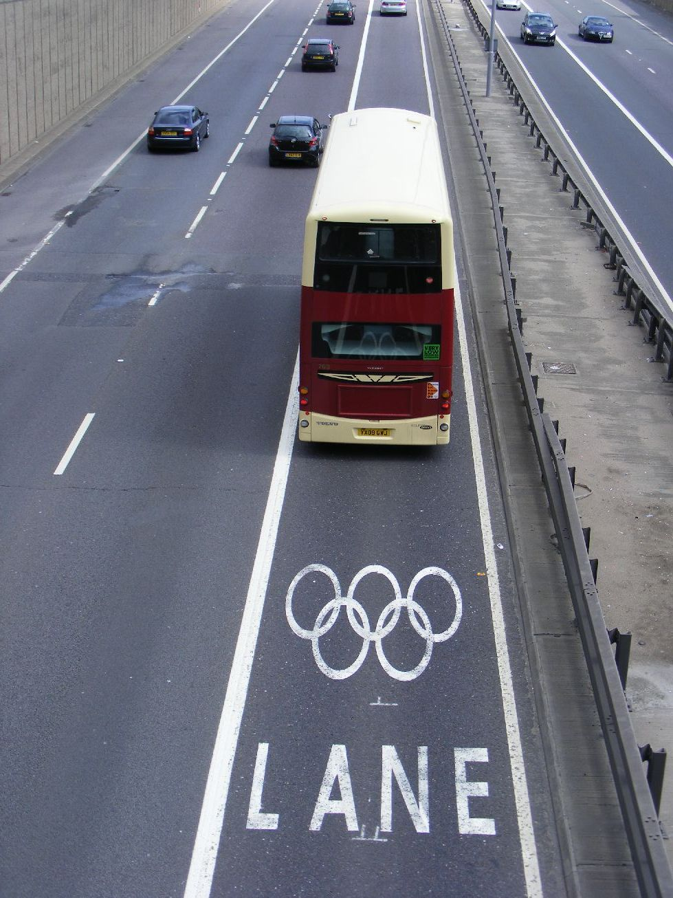 YX09 GWJ in the Olympic Lane, A12, London E3. 15 July 2012. Ex East Yorkshire nr 763. Volvo - Wrights.